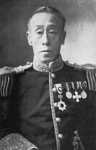 Masatake Abe